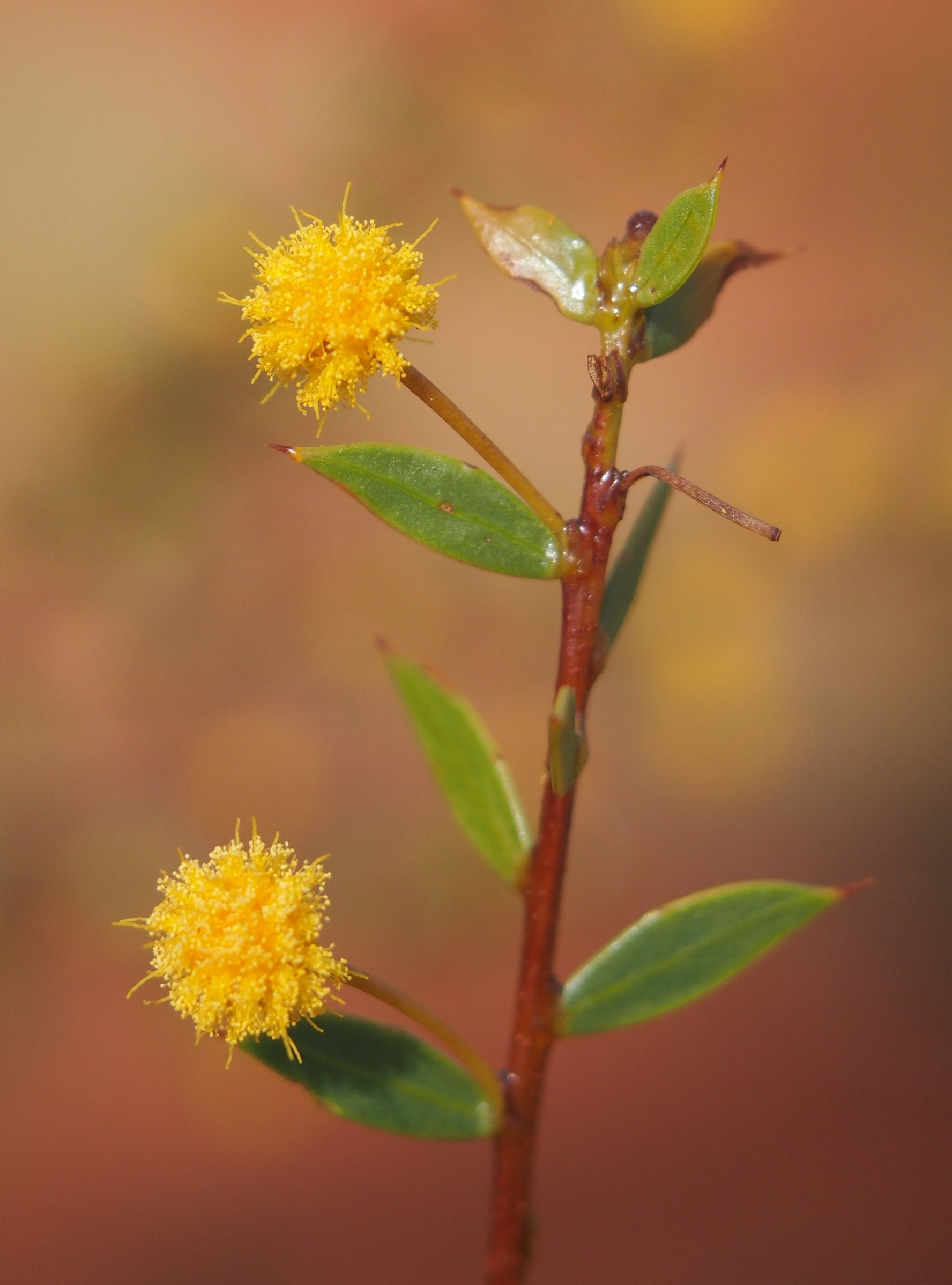 Acacia maitlandii flowers and foliagee